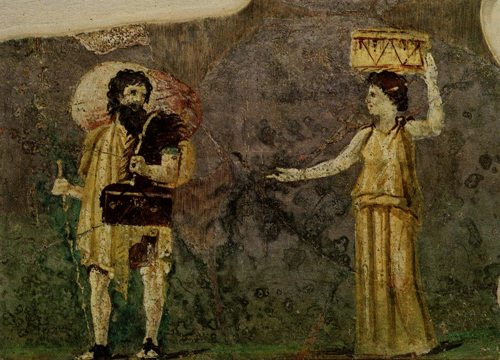 Wall painting showing the Cynic philosophers Crates and Hipparchia. From the garden of the Villa Farnesina, Museo delle Terme, Rome